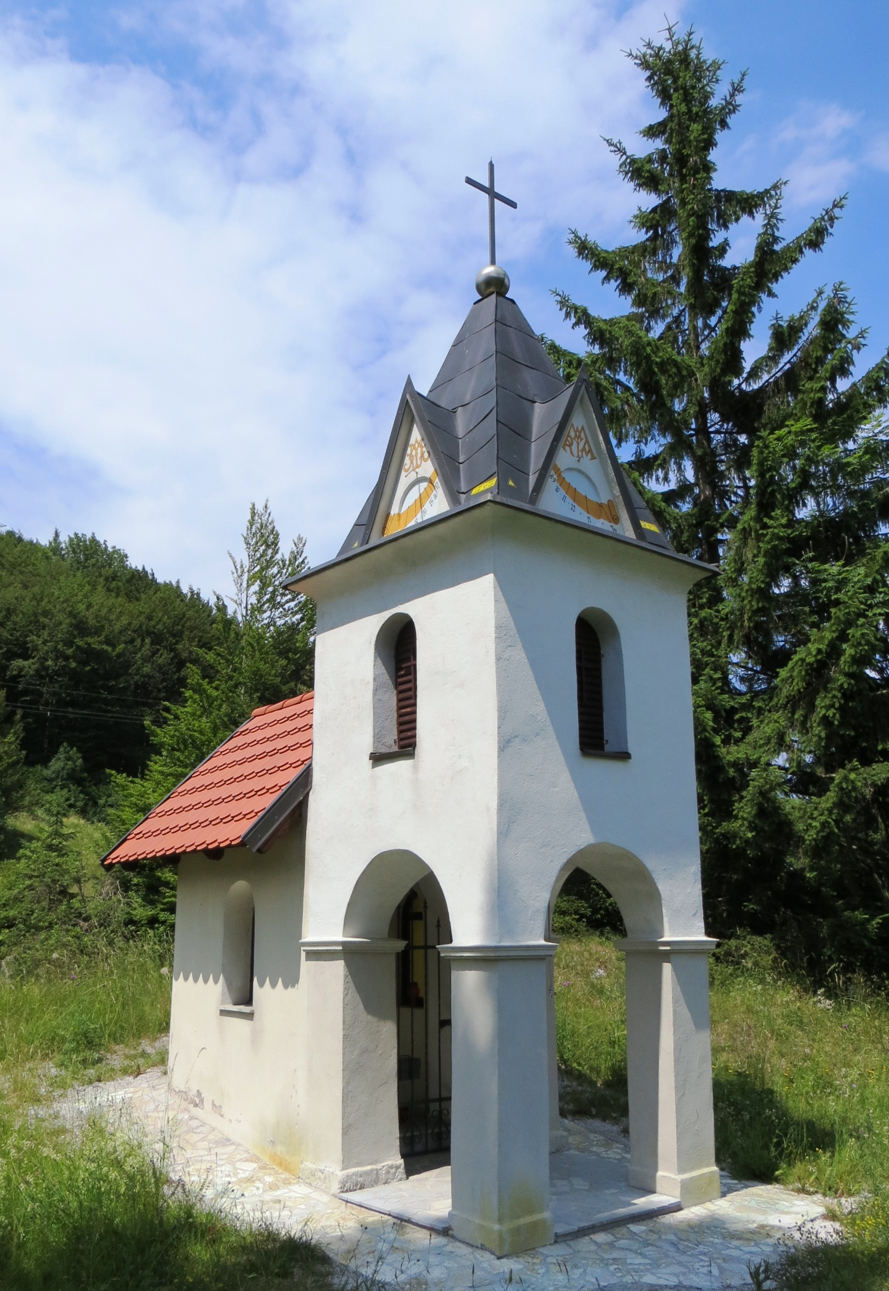 Kampeljc Chapel-Shrine (19th century) in Črni Vrh, Municipality of Idrija, Slovenia